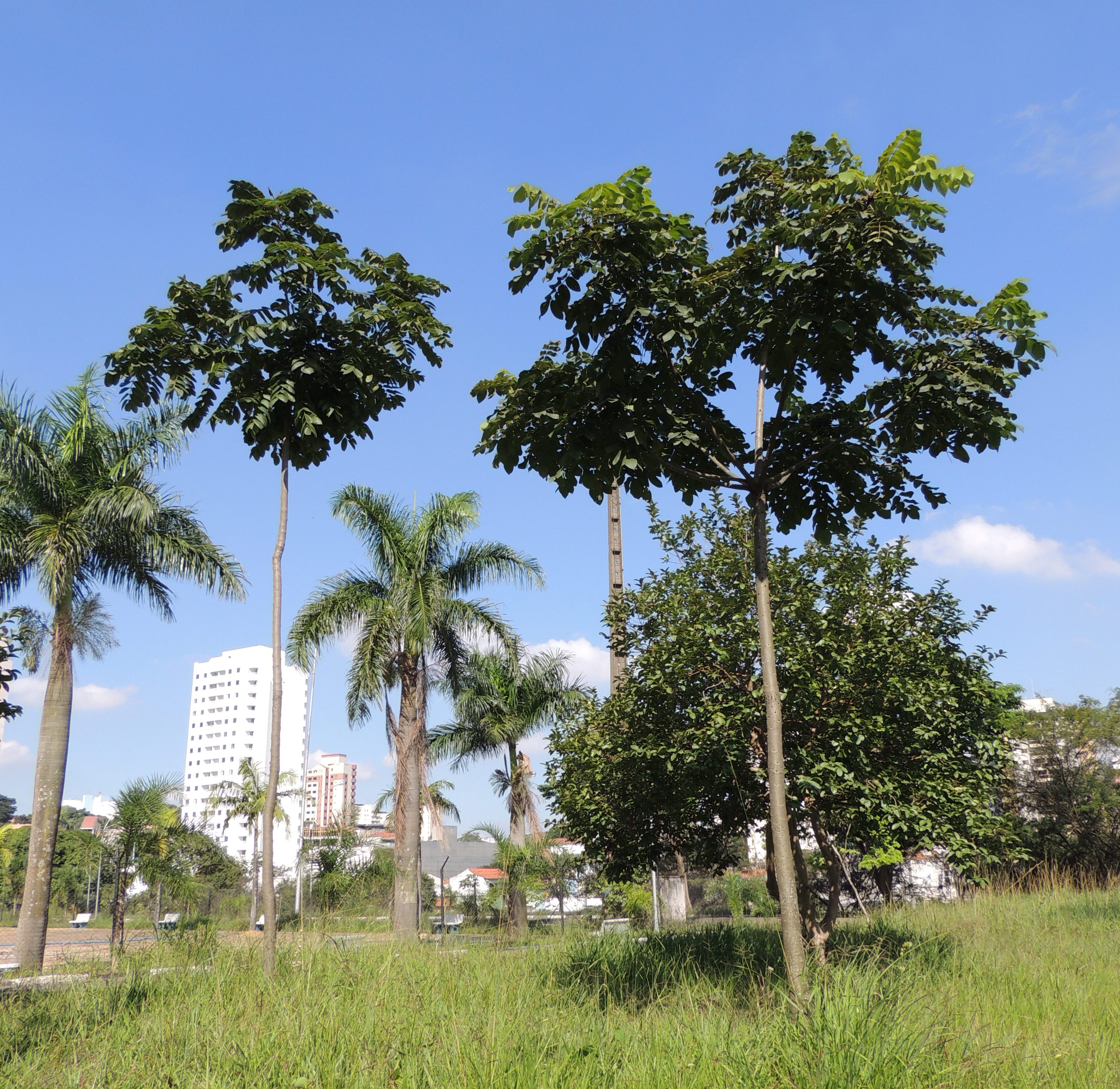 Arariba-rosa "Centrolobium tomentosum"